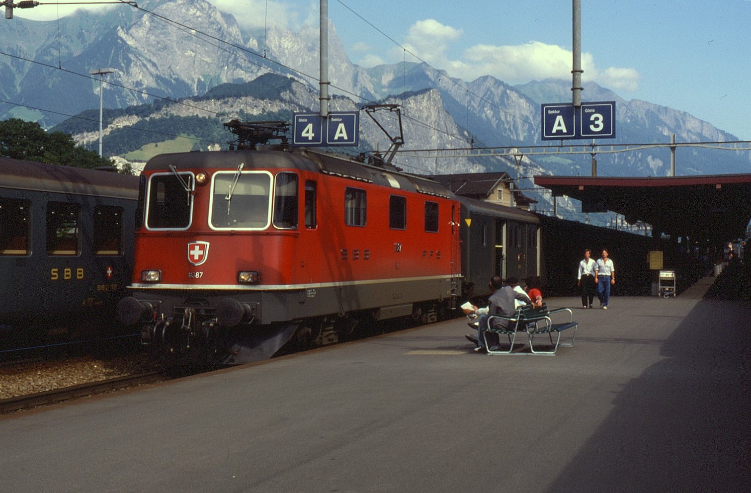 SBB Re4/4¹¹ no. 11387 in red livery photographed at Sargans on 30 July 1988.